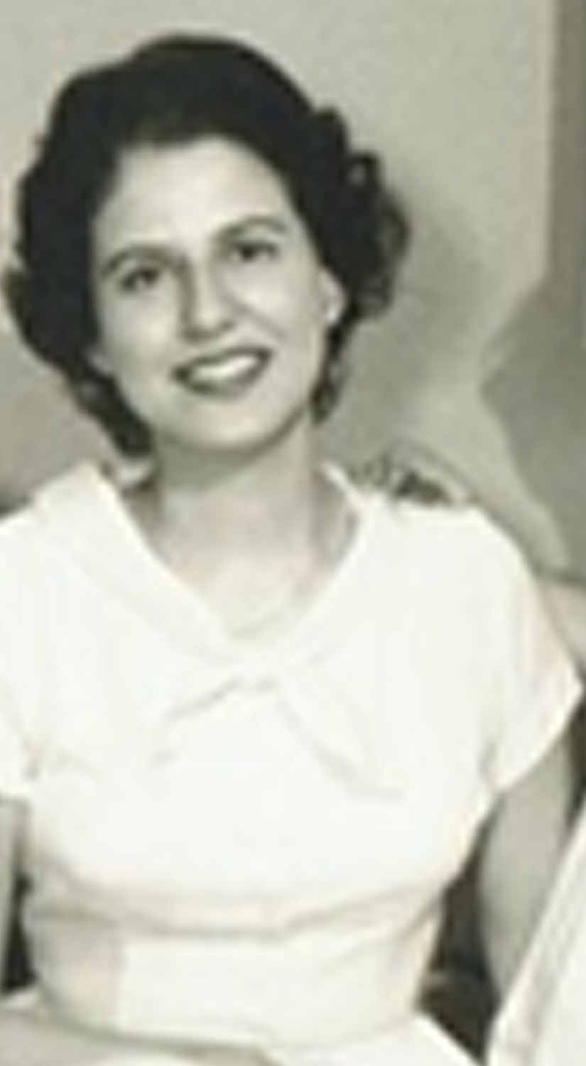 HLB, editor author and translator